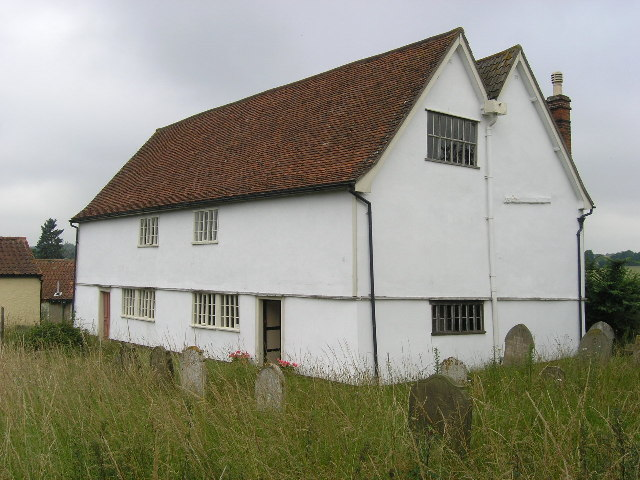 Walpole (Suffolk) Congregational Chapel. Looking more like a house outside, it has a wonderful C17 interior with galleries.